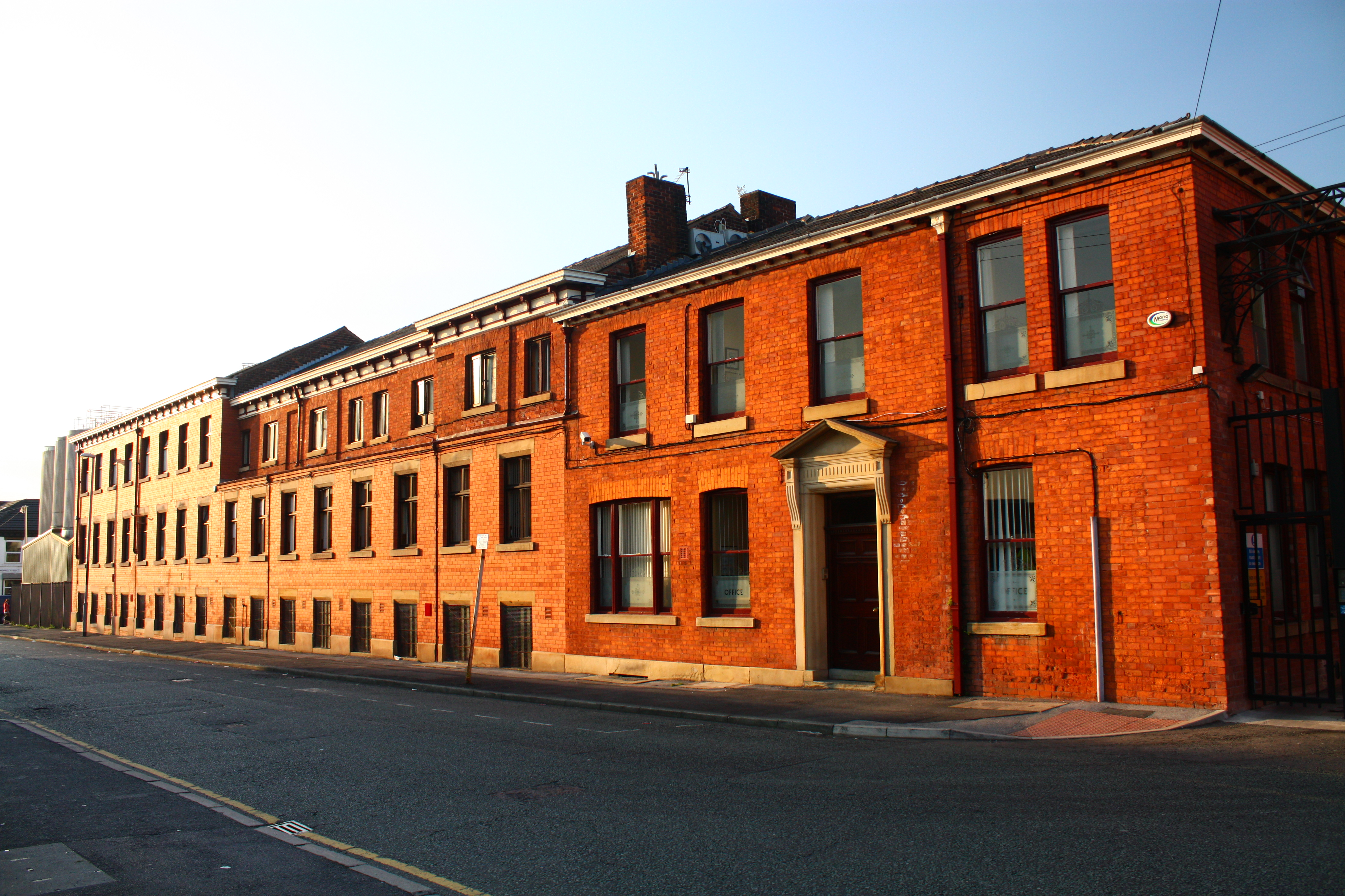 This is a photo of the Manchester based brewery, Joseph Holt on Empire Street.